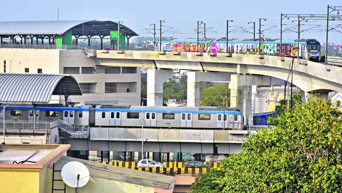 Secunderabadclocktowermetro